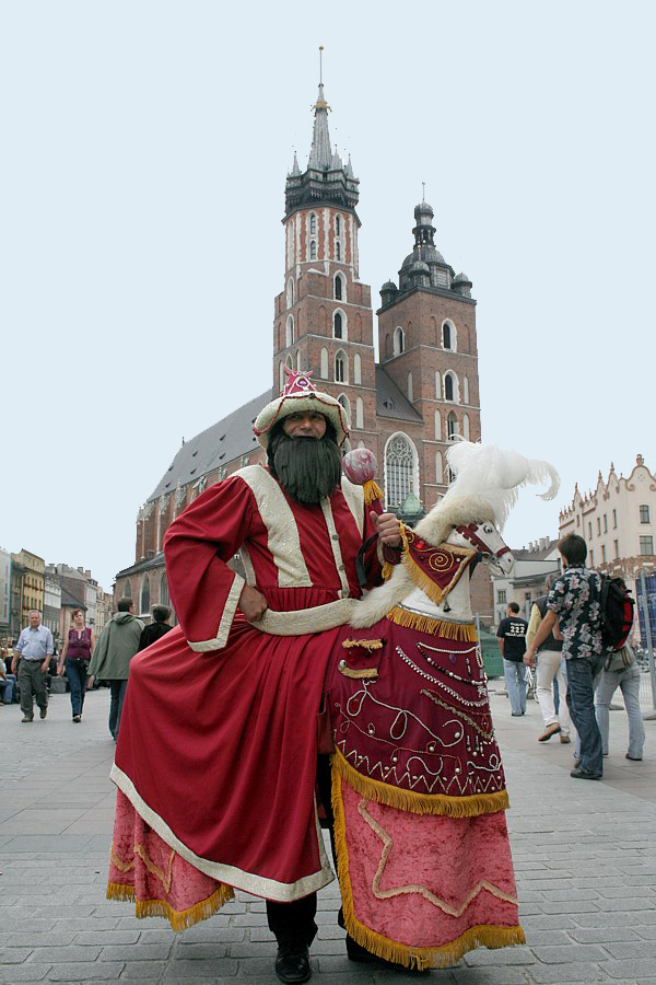 Lajkonik – the symbol of Kraków (Poland)